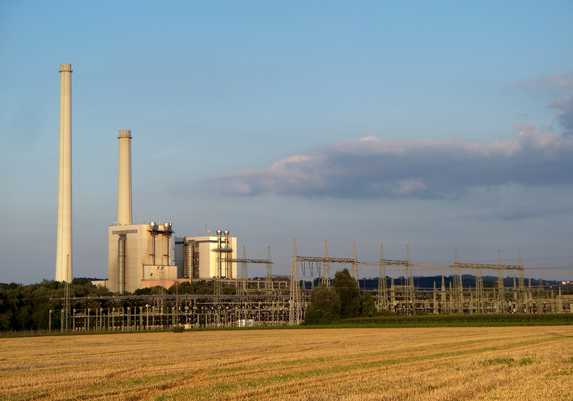 The thermal power station 'Pleinting' with its electrical substation in Vilshofen an der Donau in August 2010.